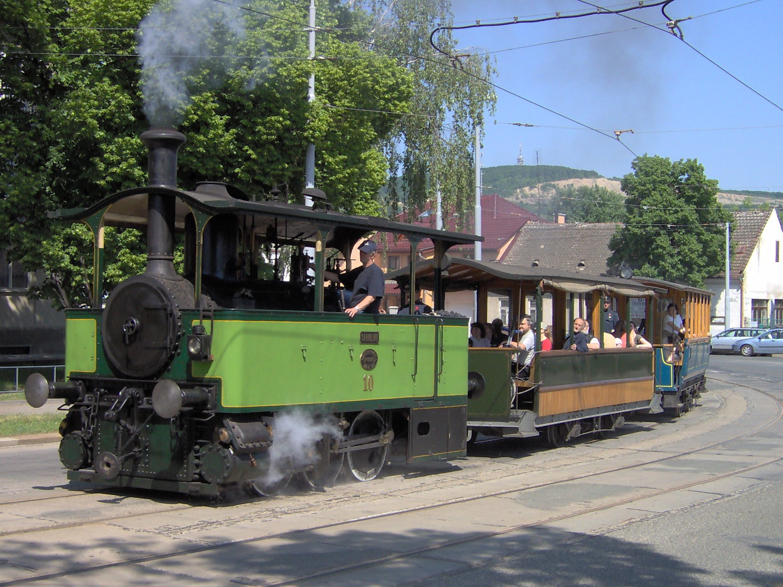 Steam tram in Brno, Czech Republic